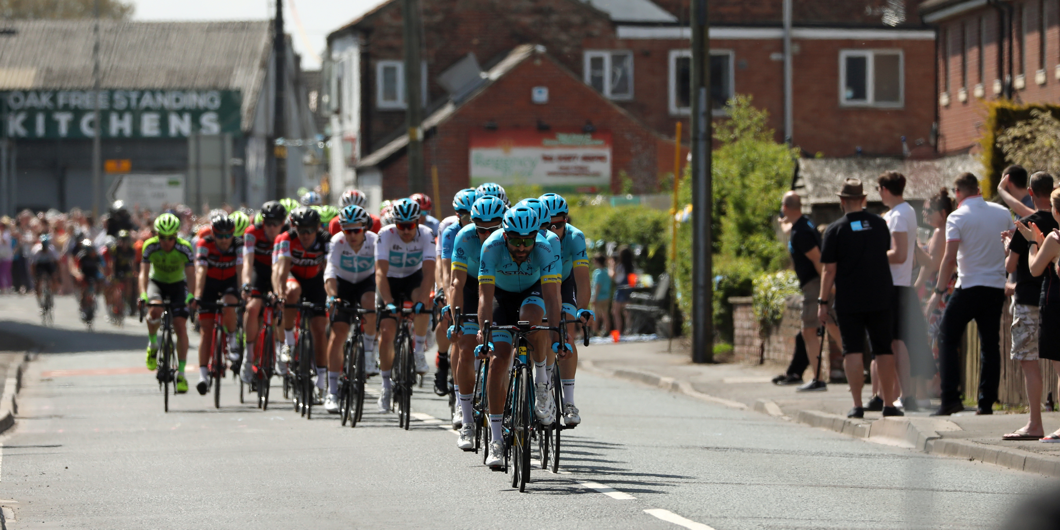 Image from Leeming Bar, 5 May 2018, when the 2018 Tour de Yorkshire came through the village on stage 3; Richmond to Scarborough